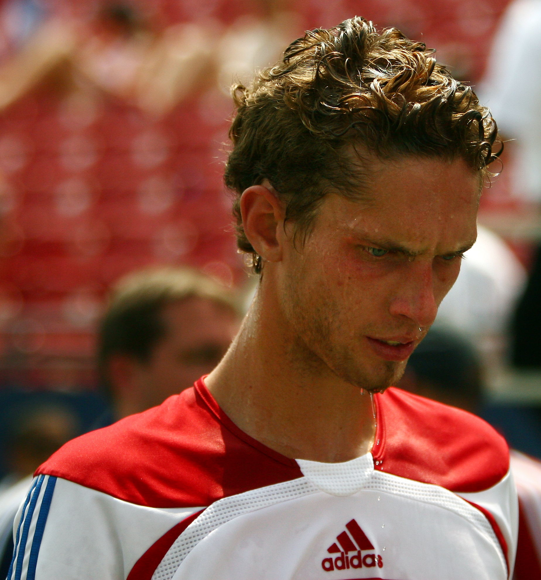 Clarence Goodson with Dallas FC